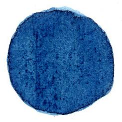 color indigo dark